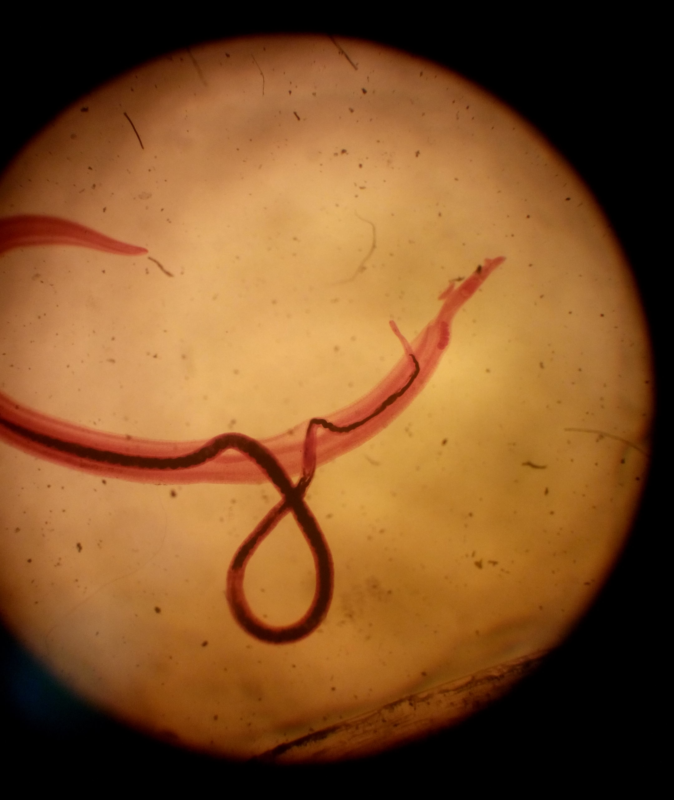 Couple of Schistosoma mansoni (Presence of male and female worms together, the male has 6-9 small testes and the female has ovary deeply stained and pre-equatorial)